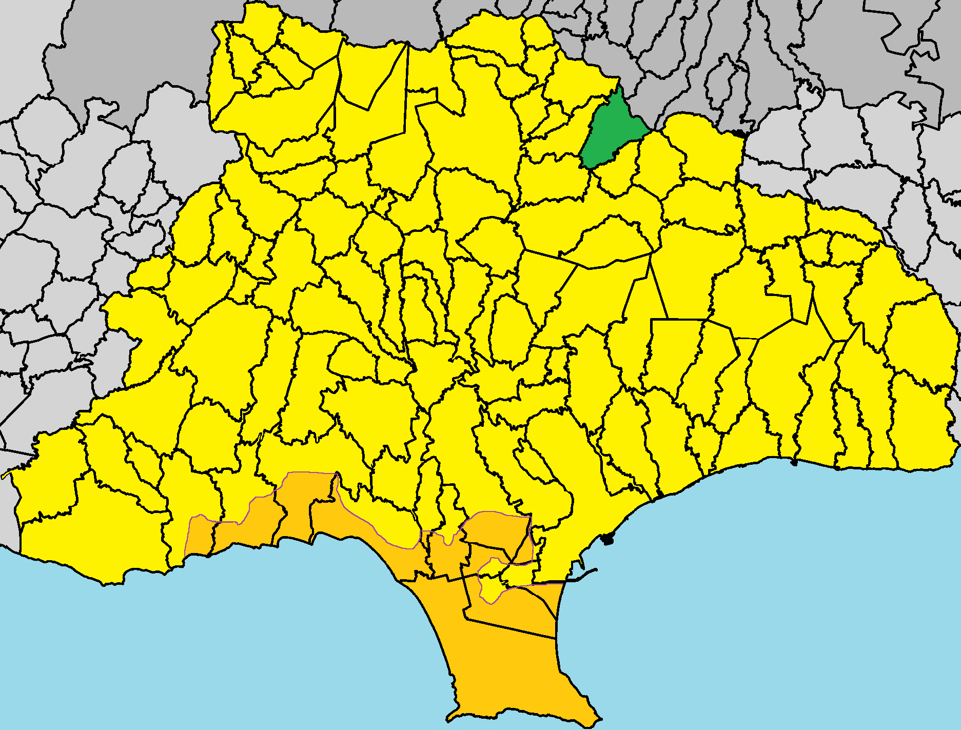 Agios Theodoros, Limassol in Limassol District.